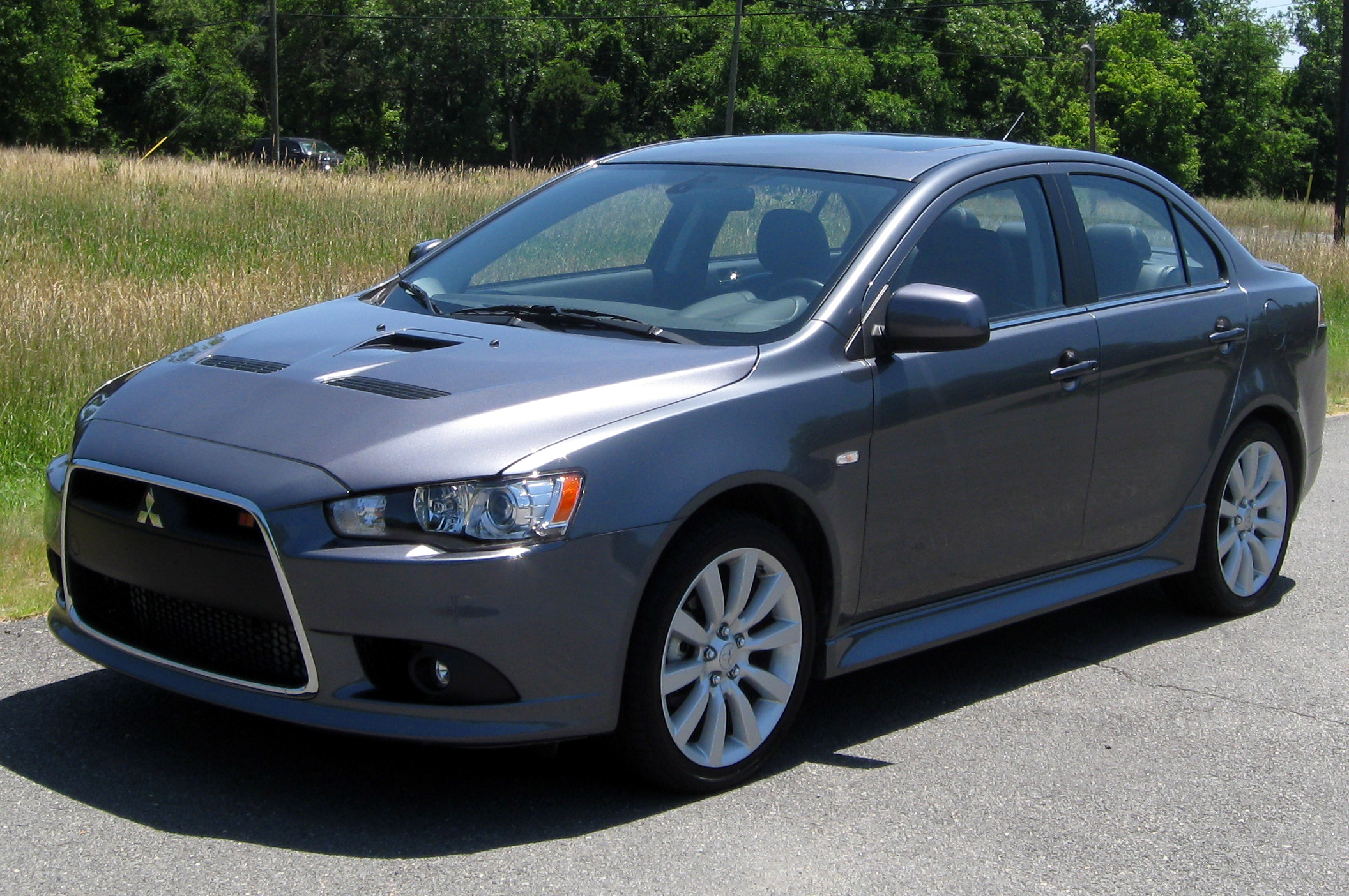 2011 Mitsubishi Lancer Ralliart photographed in Centreville, Virginia, USA.